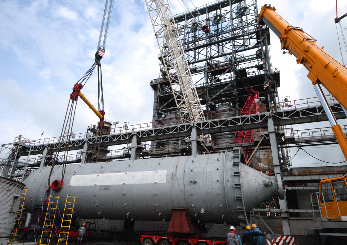 Lifting load. Work of a slinger